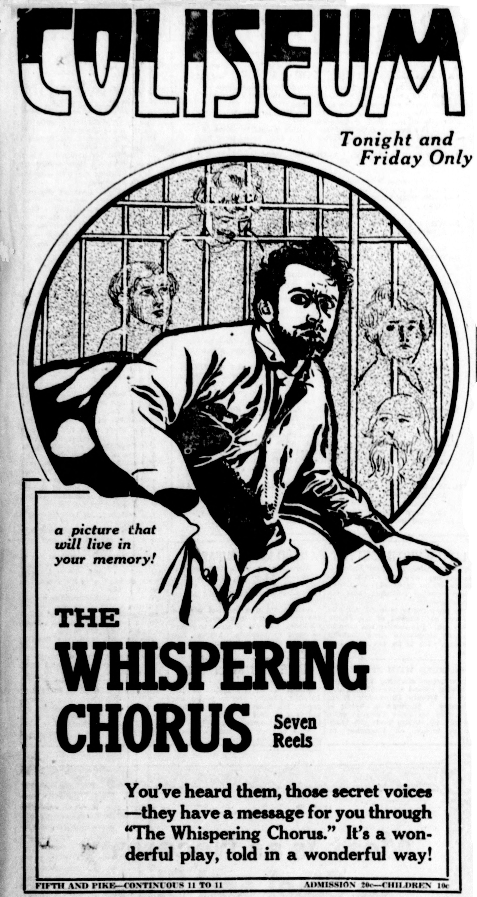 The Whispering Chorus is a 1918 American silent drama film directed by Cecil B. DeMille. This is a newspaper advert for the film.